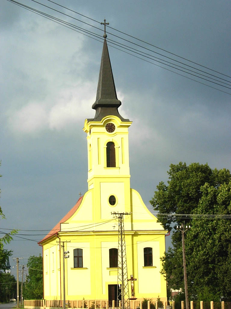 The Most Holy Trinity Catholic Church in Selenča.